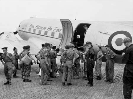 Seoul (Yong Dong P'ho), South Korea. The scene on the tarmac at Seoul as the first group of prisoners of war to be released following the signing of the cease fire in the Korean War board the No. 36 Squadron RAAF aircraft for the flight to Japan and freedom.